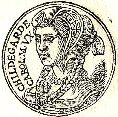 Hildegard of Vinzgouw was the daughter of count Gerold of Vinzgouw and Emma of Alamannia, daughter of Hnabi, Duke of Alamannia. Hildegard was the second wife of Charlemagne.